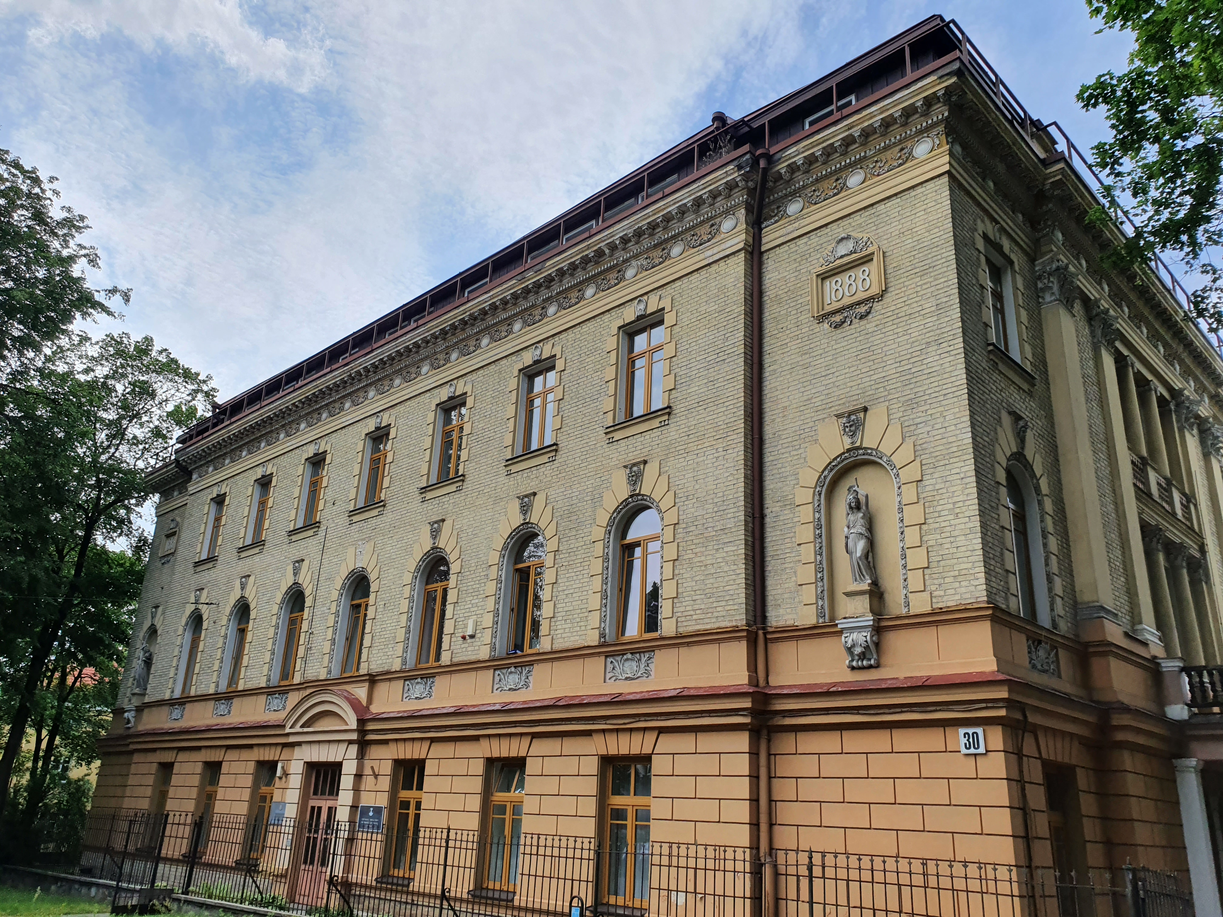 Vilnius Chamber of Commerce, Industry and Crafts.